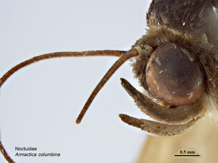 Armactica columbina, head. Site LTR1: Western Australia: Barrow Island March 2006 S. Callan R. Graham. Det P. Marriott 2009.